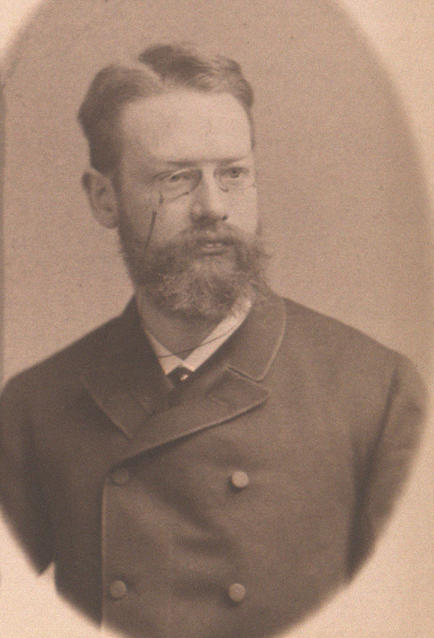 Andreae, (Philipp Victor) Achilles